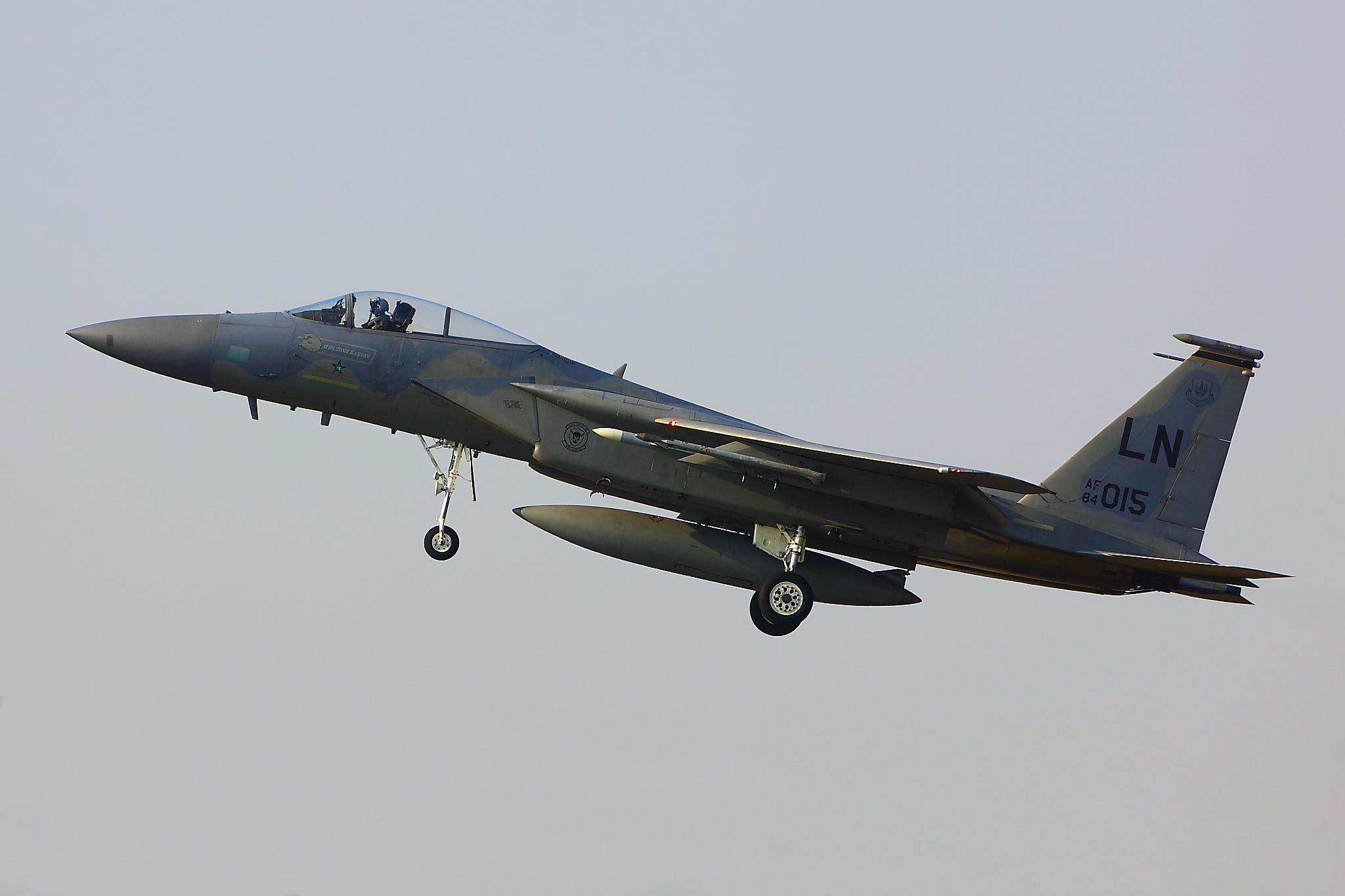 F15C Eagle - RAF Lakenheath - March 2011